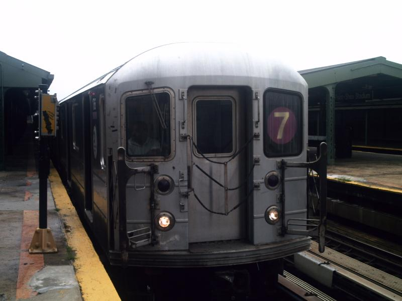 R62A 7 train in service in New York City Subway